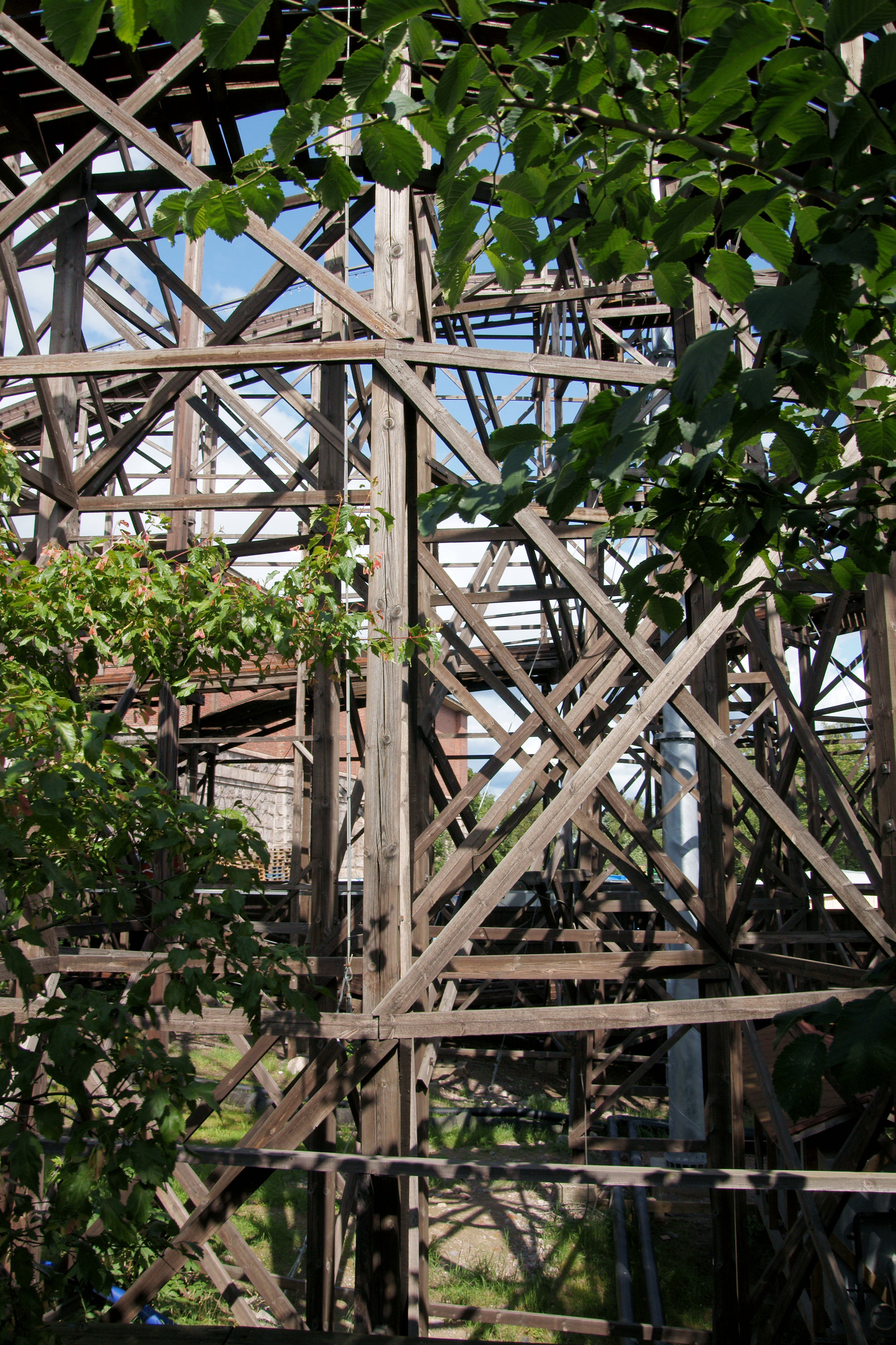 Vuoristorata in Linnanmäki.